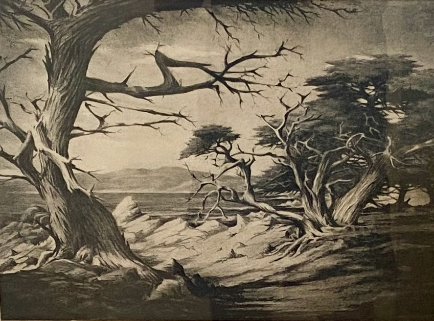 This is a painting by Paul Whitman called "Monterey Cypress".